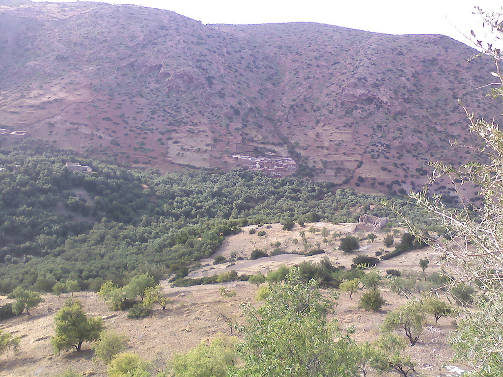 morocco, hotels, travel, city guides, tourism, culture, arts, community, blogs